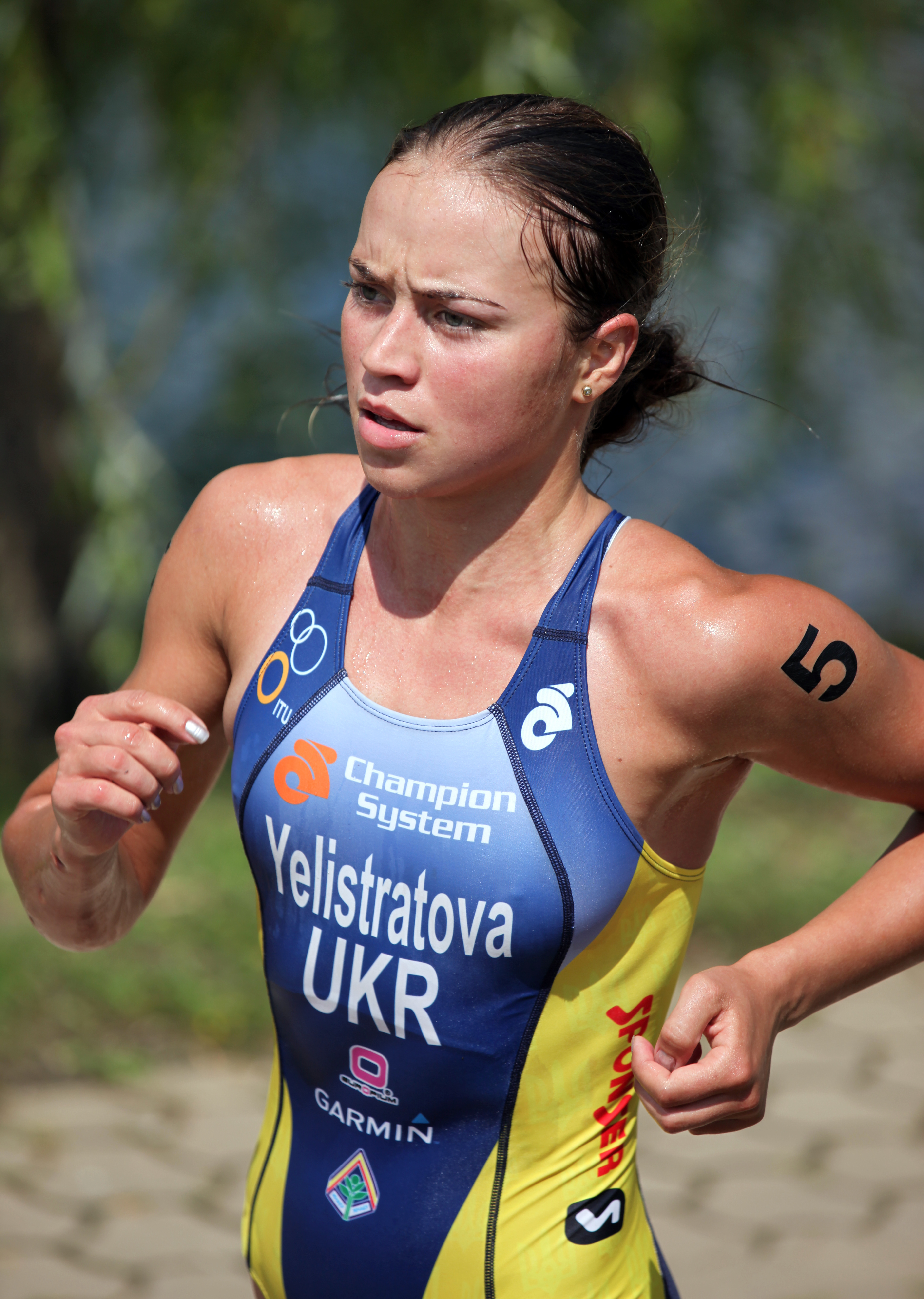 Yuliya Yelistratova (Юлія Єлістратова, Russian Юлия Елистратова) at the World Cup elite triathlon in Tiszaújváros, 2011.